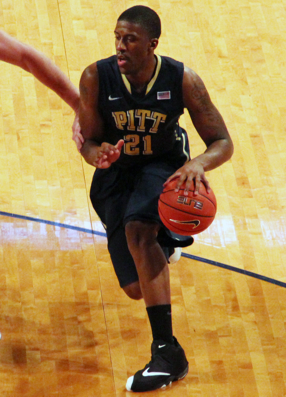 Crop of Pittsburgh Panthers men's basketball at Georgia Tech on January 14, 2014.